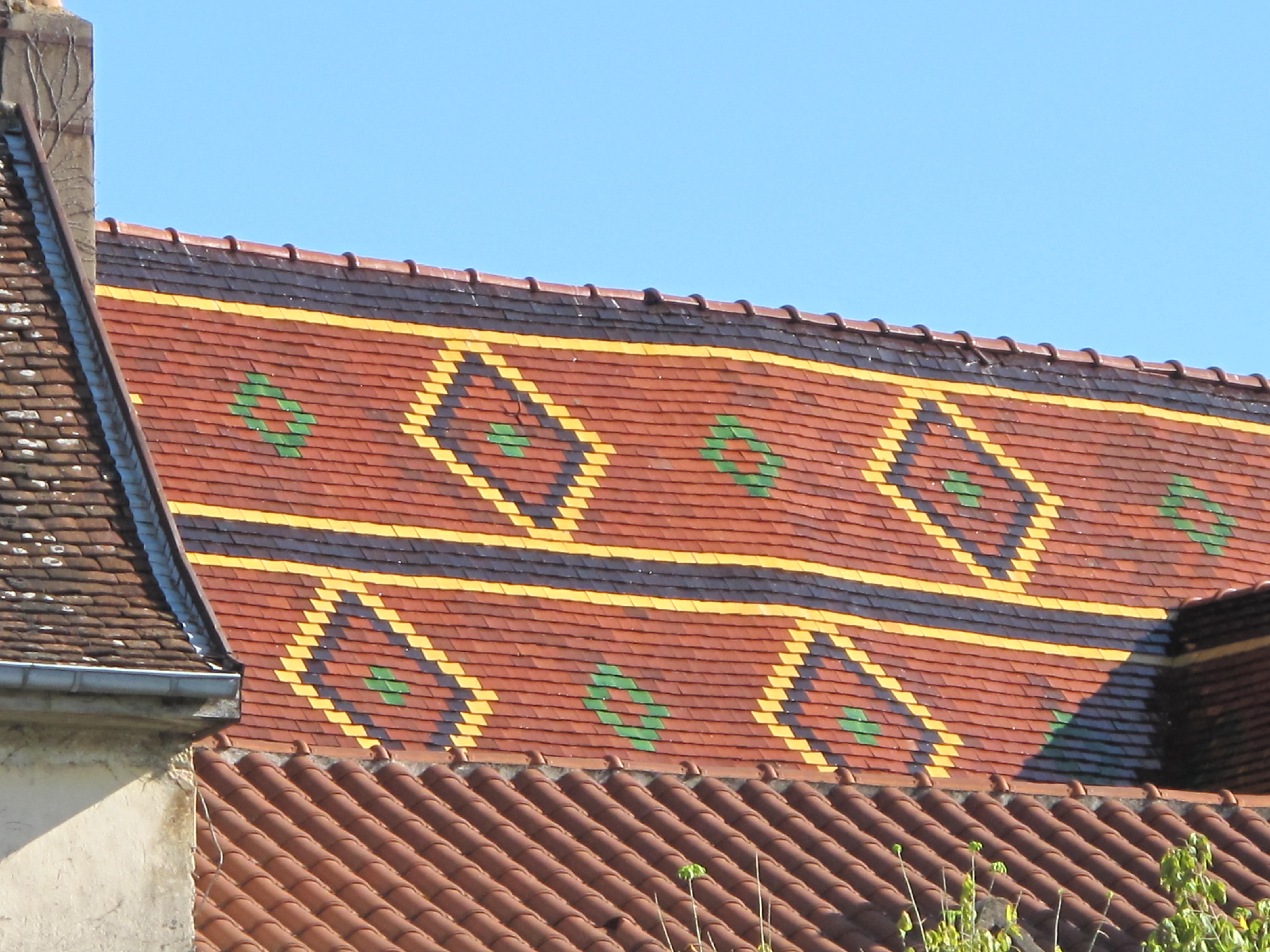 Detail of the roof of the church of Louhans : Saône et Loire France